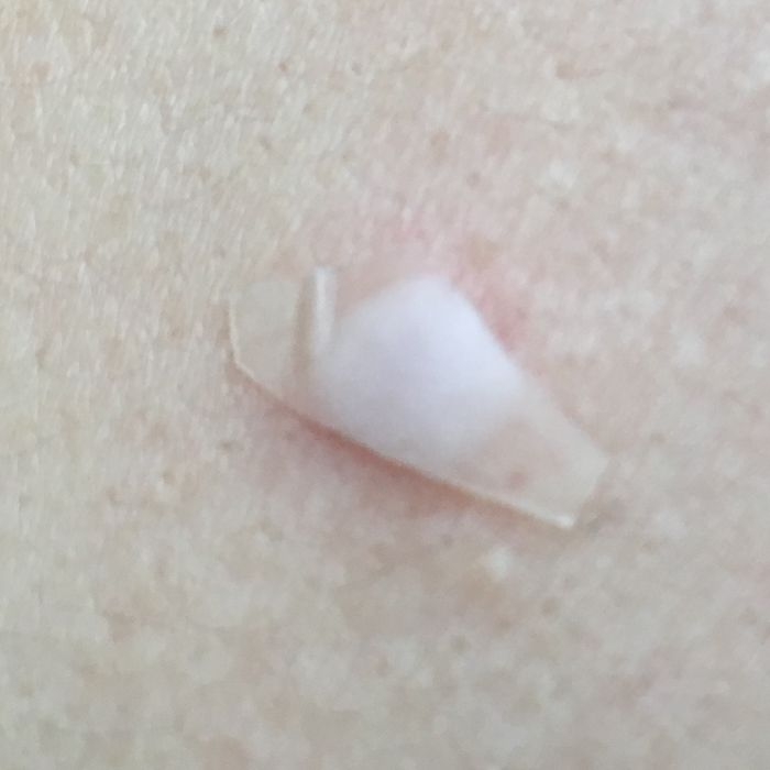 Hydrocolloid dressing.